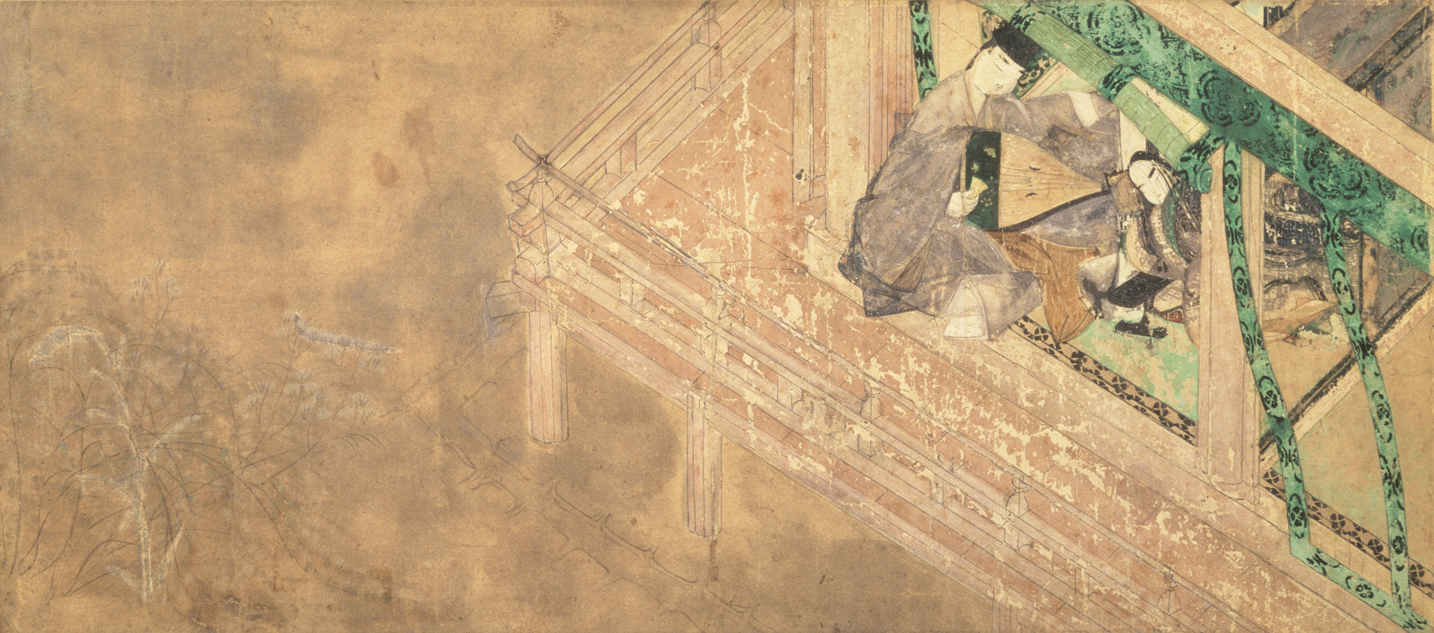 A scene of the Chapter "YADORI GI"( mistletoe ) of Illustrated handscroll of Tale of Genji (written by MURASAKI SHIKIBU(11th cent.). The handscroll was made in about ACE1130 and stored in TOKUGAWA Art Museum, Japan. The handscroll were separated to each sections and mounted to frame for conservation.